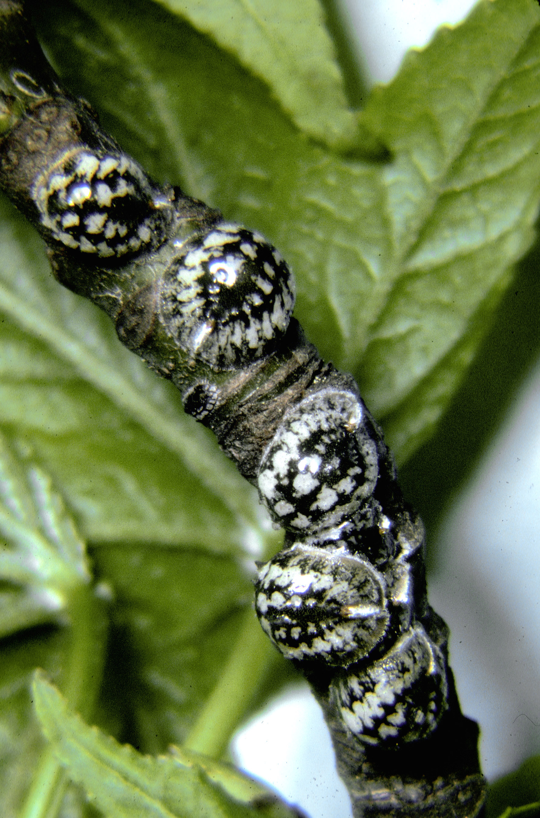 Calico scale. Eulecanium cerasorum (Rhynchota: Coccidae)